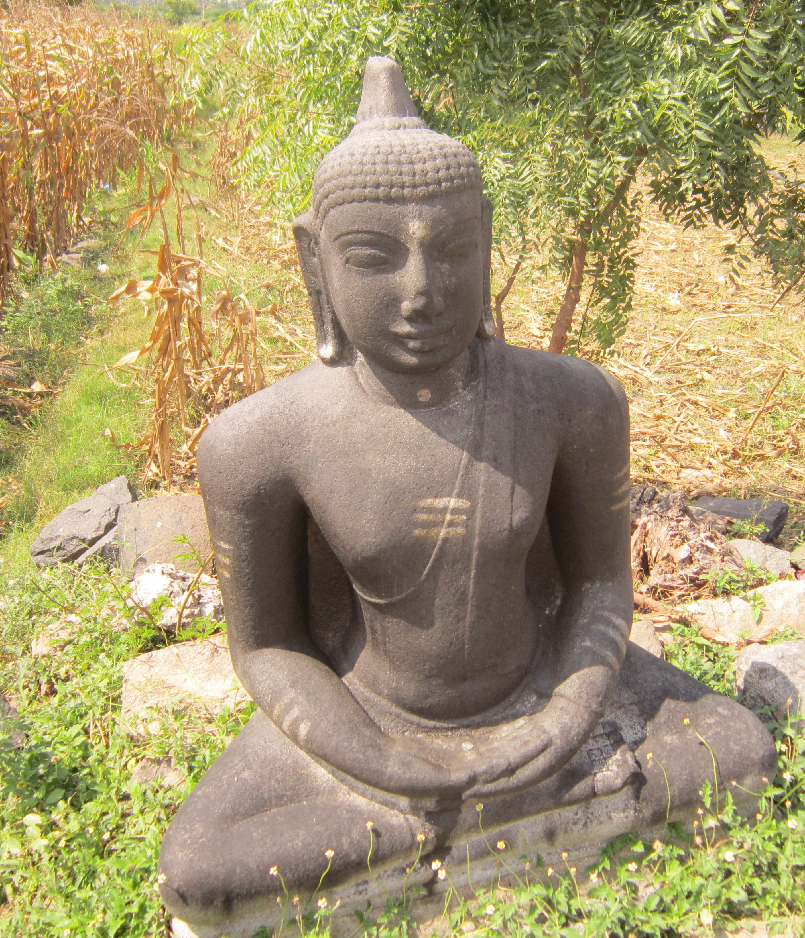 statue